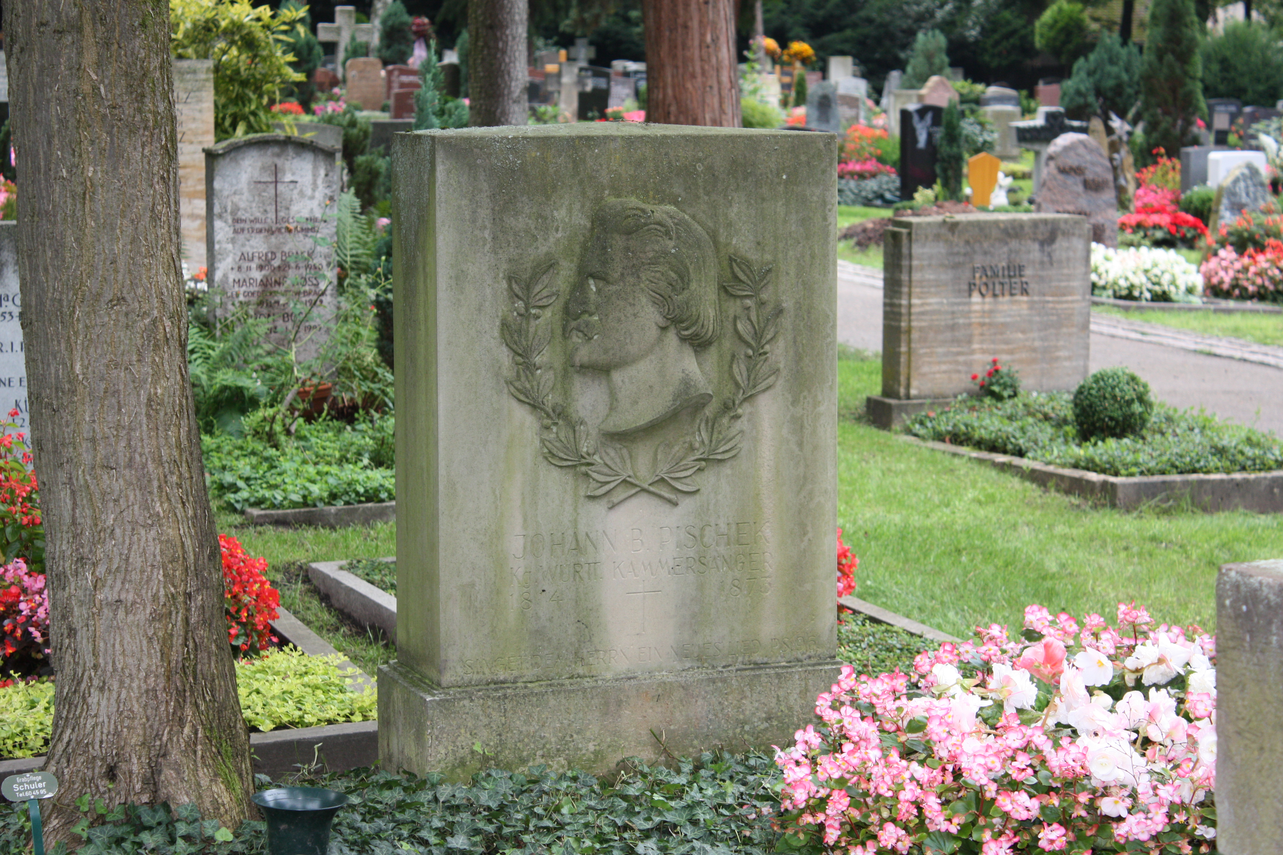 Gravestone of Johann Baptist Pischek (1814-1873), Opera singer, in Stuttgart